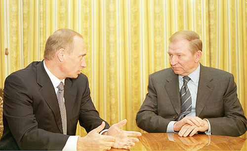 MOSCOW. President Putin with Ukrainian President Leonid Kuchma.